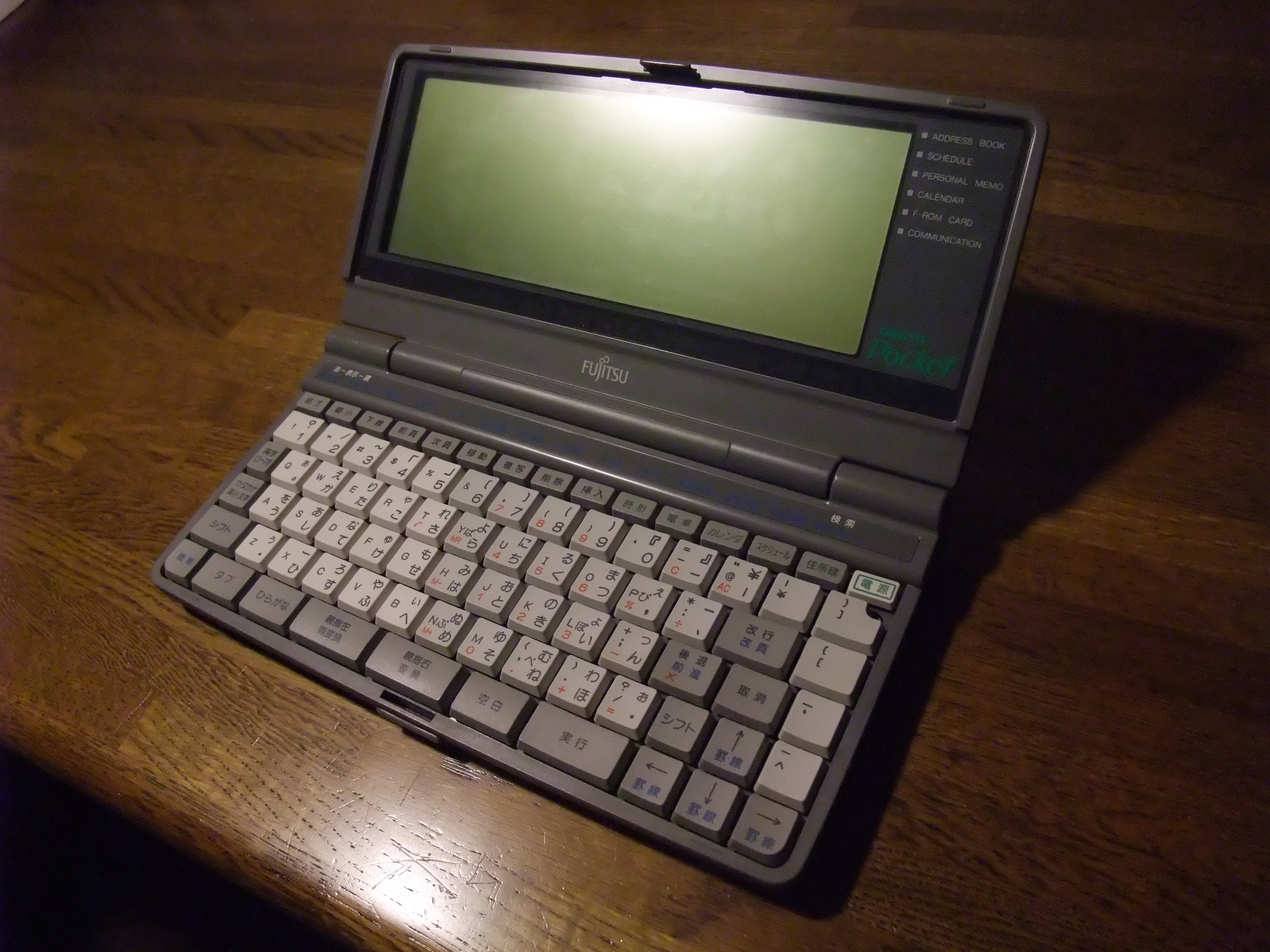 Fujitsu OASYS Pocket, Japanese word processor.